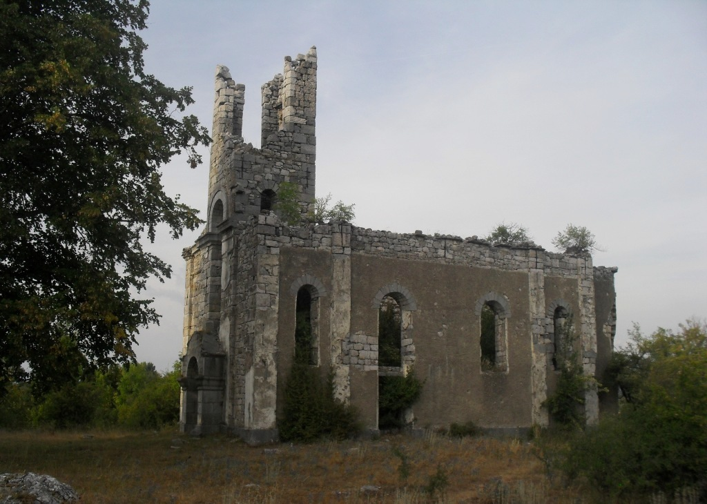 Serbian Orthodox church in Deringaj, Croatia.